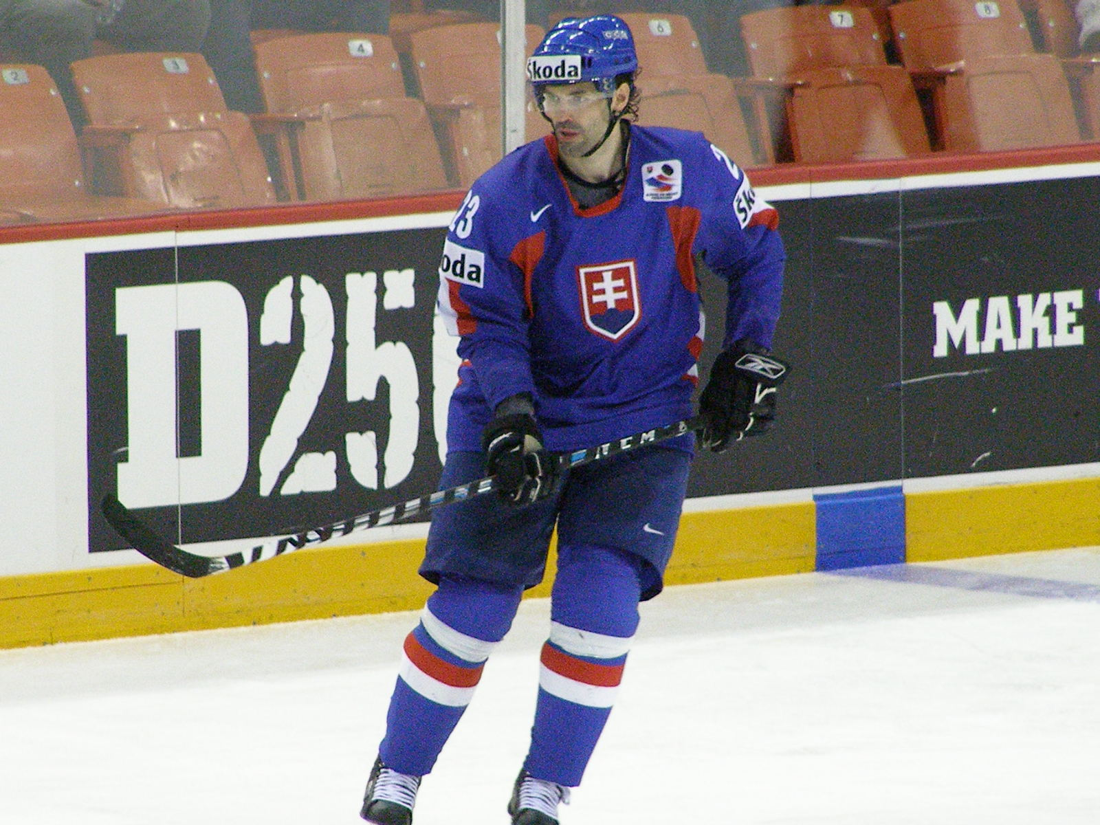 Ivan Majeský, defenseman for the Slovakia men's national ice hockey team, during a game against Norway men's national ice hockey team at the 2008 IIHF World Championship.